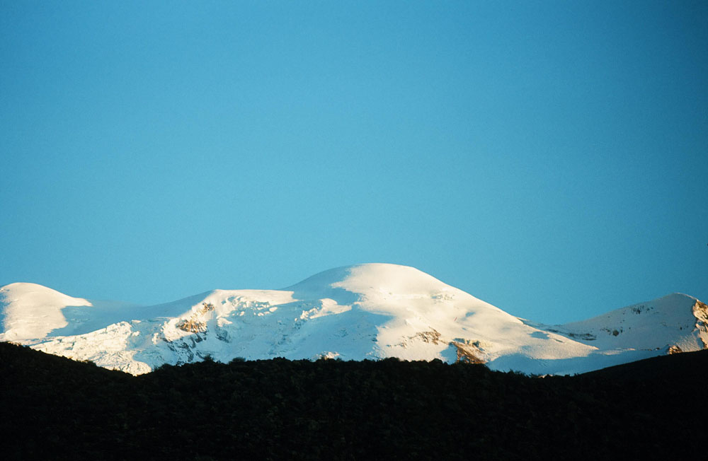 Above the Rio Colca, Peru.